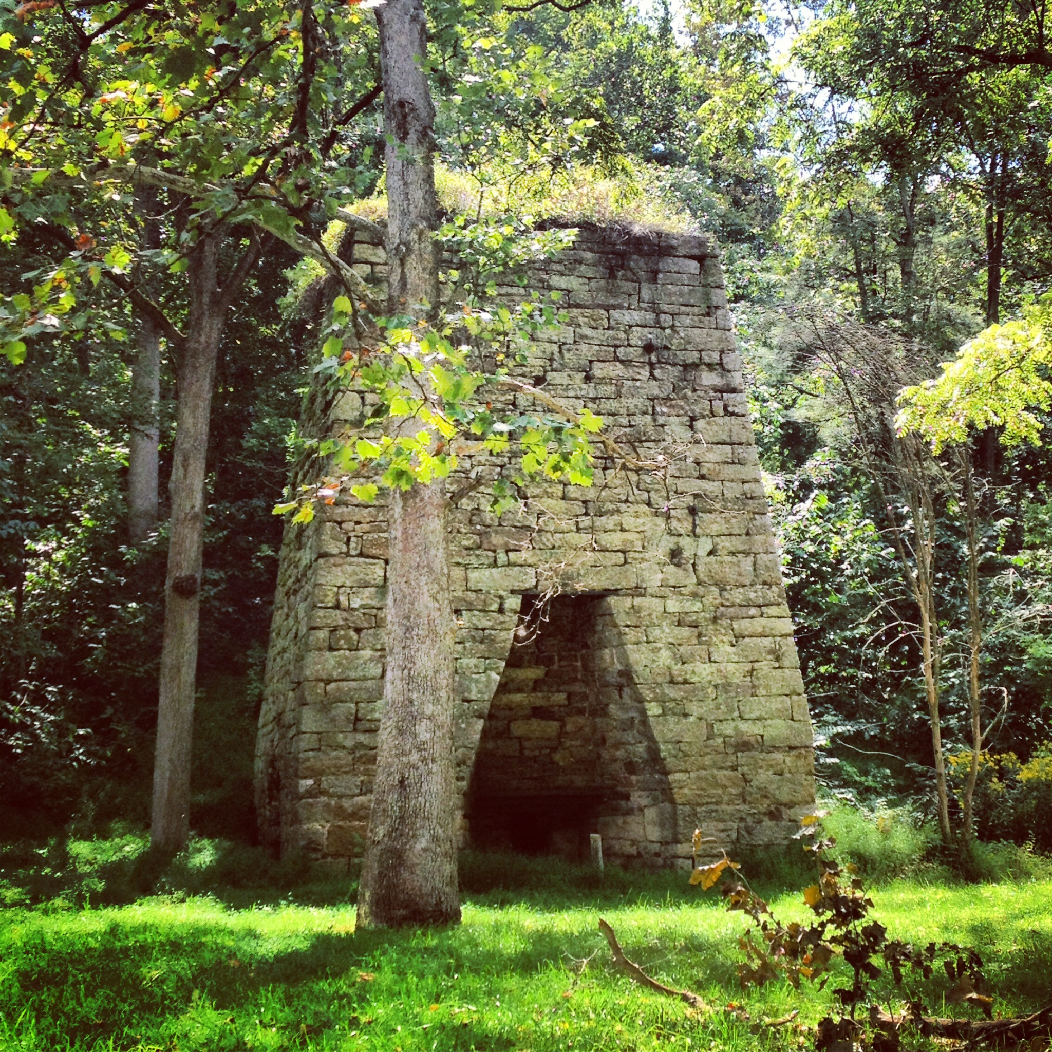 Bloomery Iron Furnace along Bloomery Pike (West Virginia Route 127) near Bloomery, West Virginia, United States. Photographed by Quercus montana